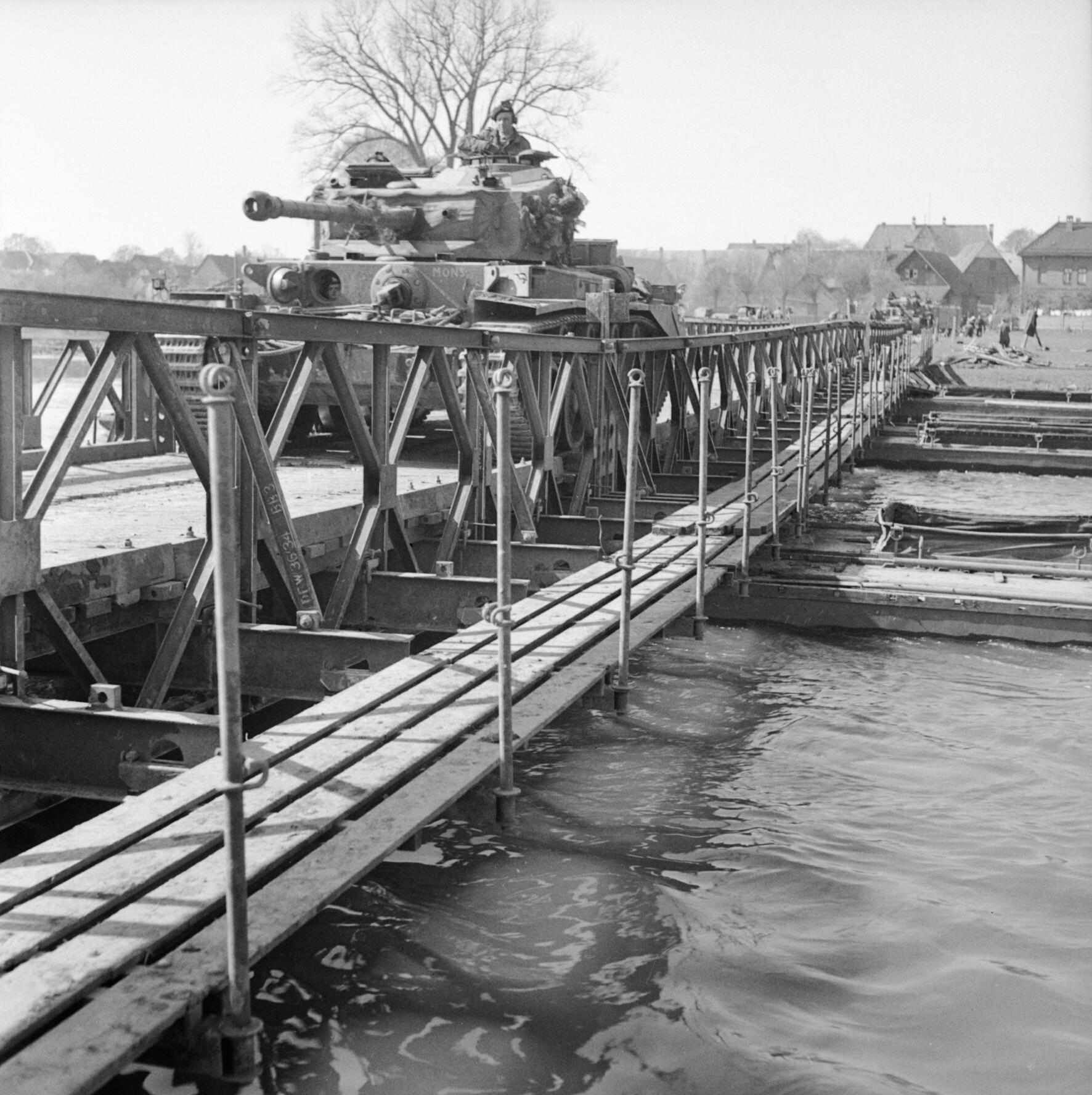 Comet tanks of the 2nd Fife and Forfar Yeomanry, 11th Armoured Division, crossing the Weser at Petershagen, 7 April 1945. Comet tanks of the 2nd Fife and Forfar Yeomanry, 11th Armoured Division, crossing the Weser at Petershagen, 7 April 1945.